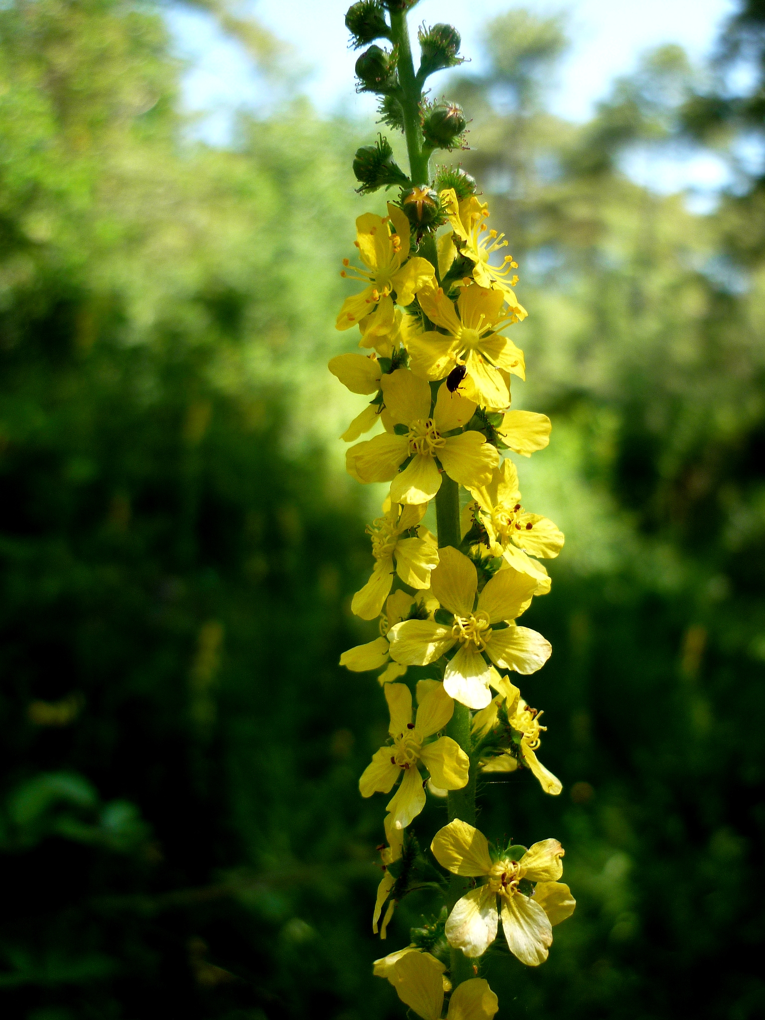 Agrimonia eupatoria. In Torà (Segarra- Catalunya). On 570 m. altitude